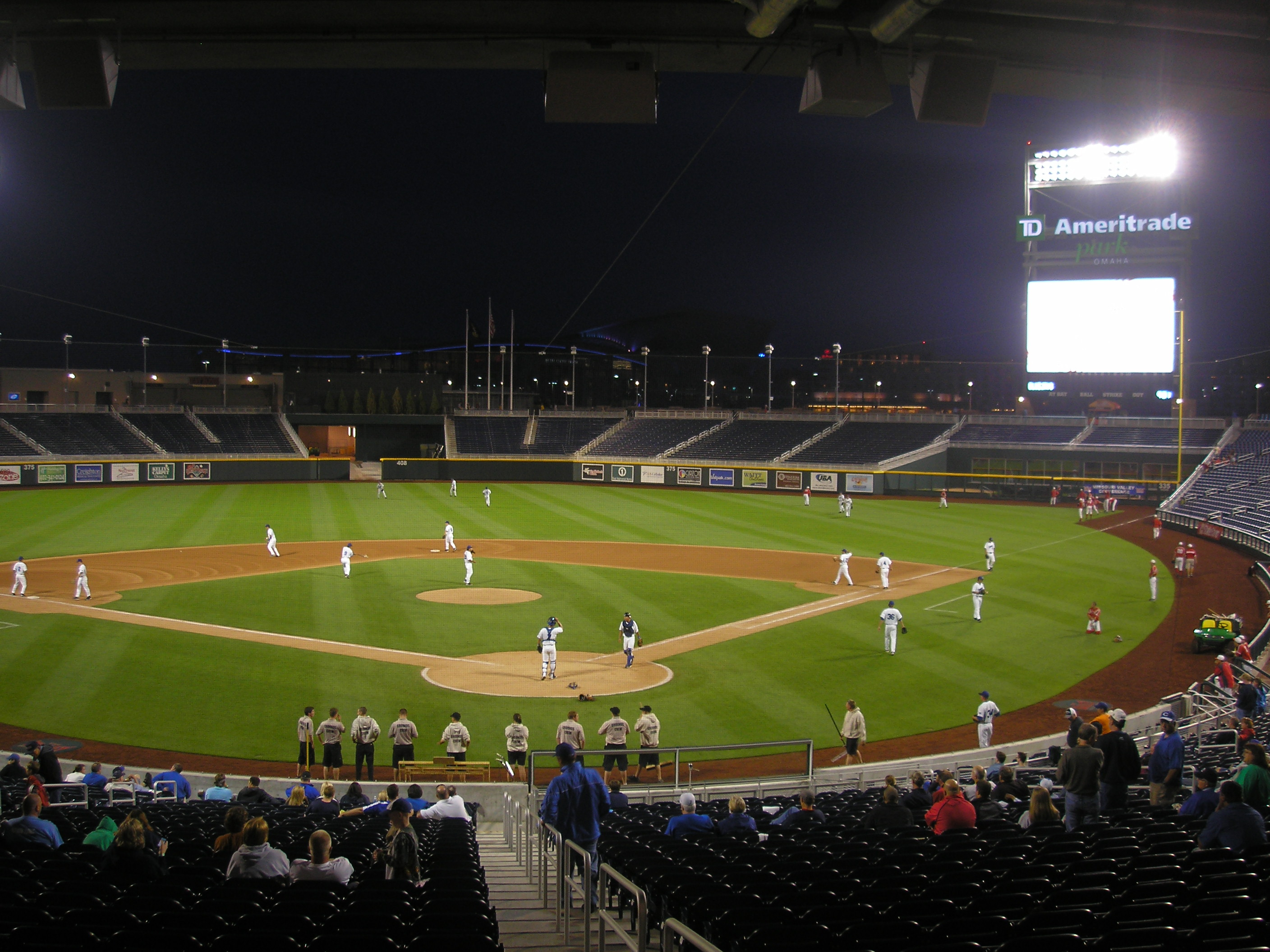 MVC Tournament